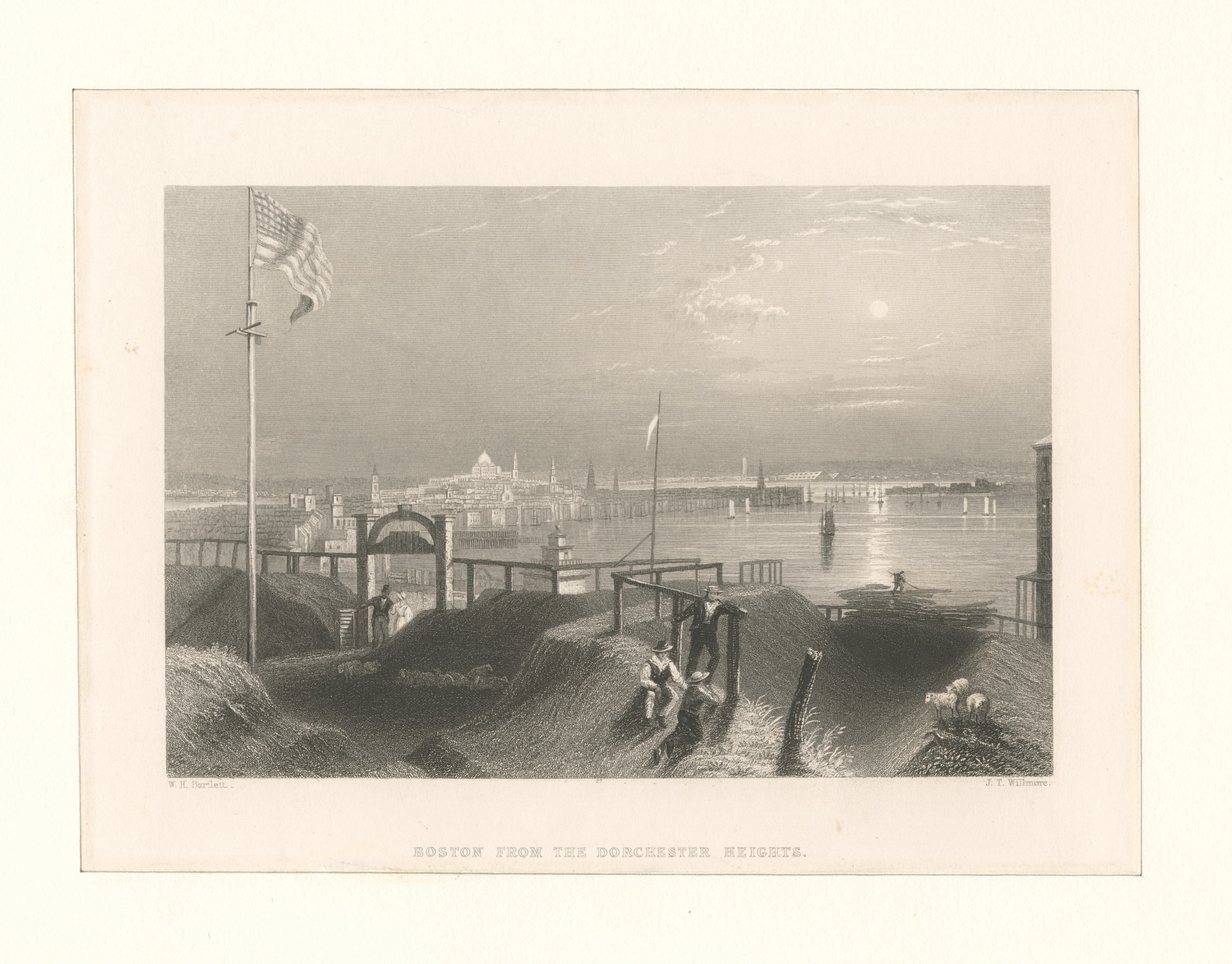 Printmakers include Samuel Smith Kilburn, Stephen Alonzo Schoff & George Vertue. Title from Calendar of the Emmet Collection. EM8820 Statement of responsibility : J.T. Willmore